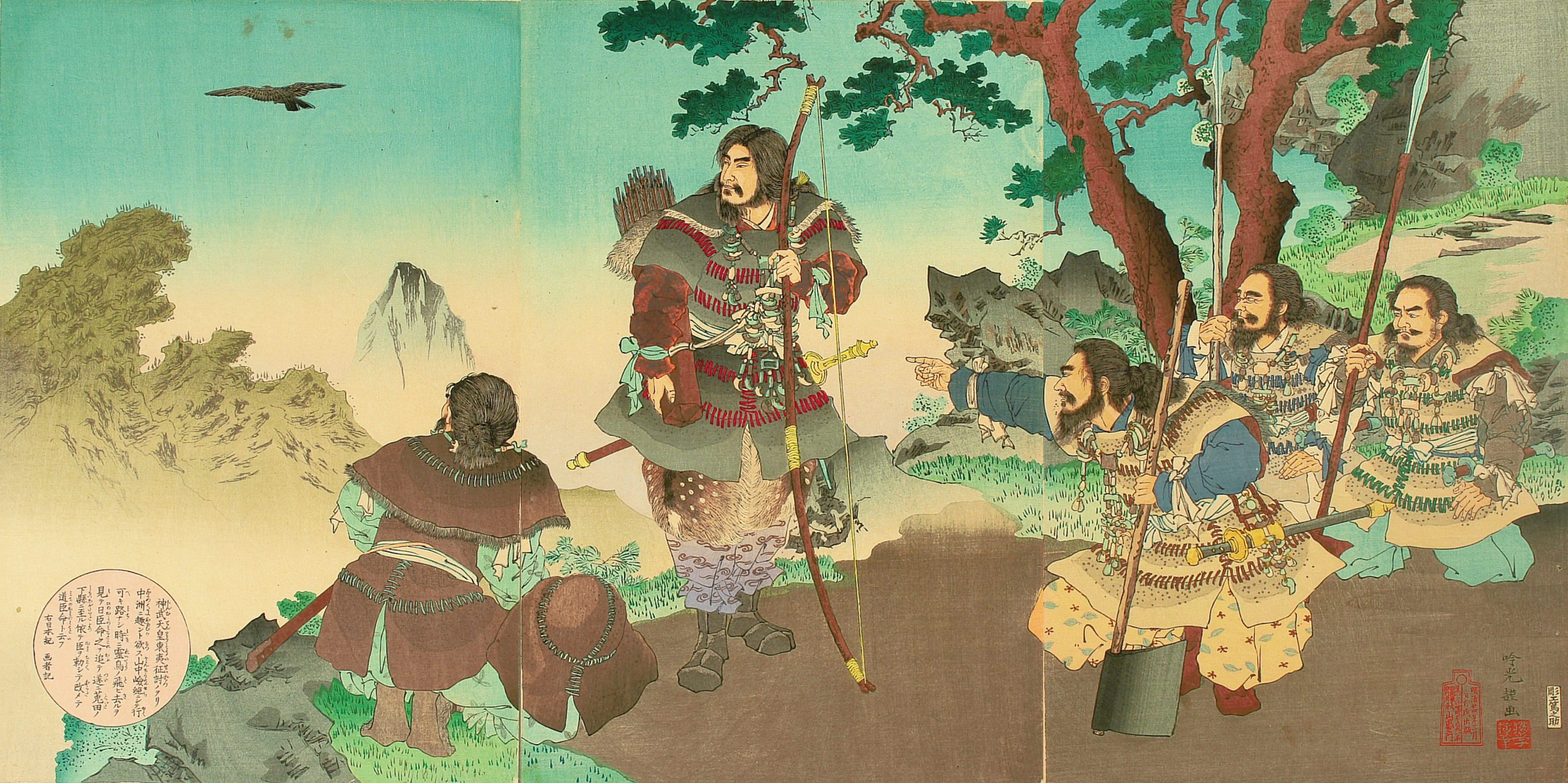 Emperor Jinmu - Stories from "Nihon Shoki" (Chronicles of Japan), by Ginko Adachi. Woodblock print depicting legendary first emperor Jimmu, who saw a sacred bird flying away while he was in the expedition of the eastern section of Japan.